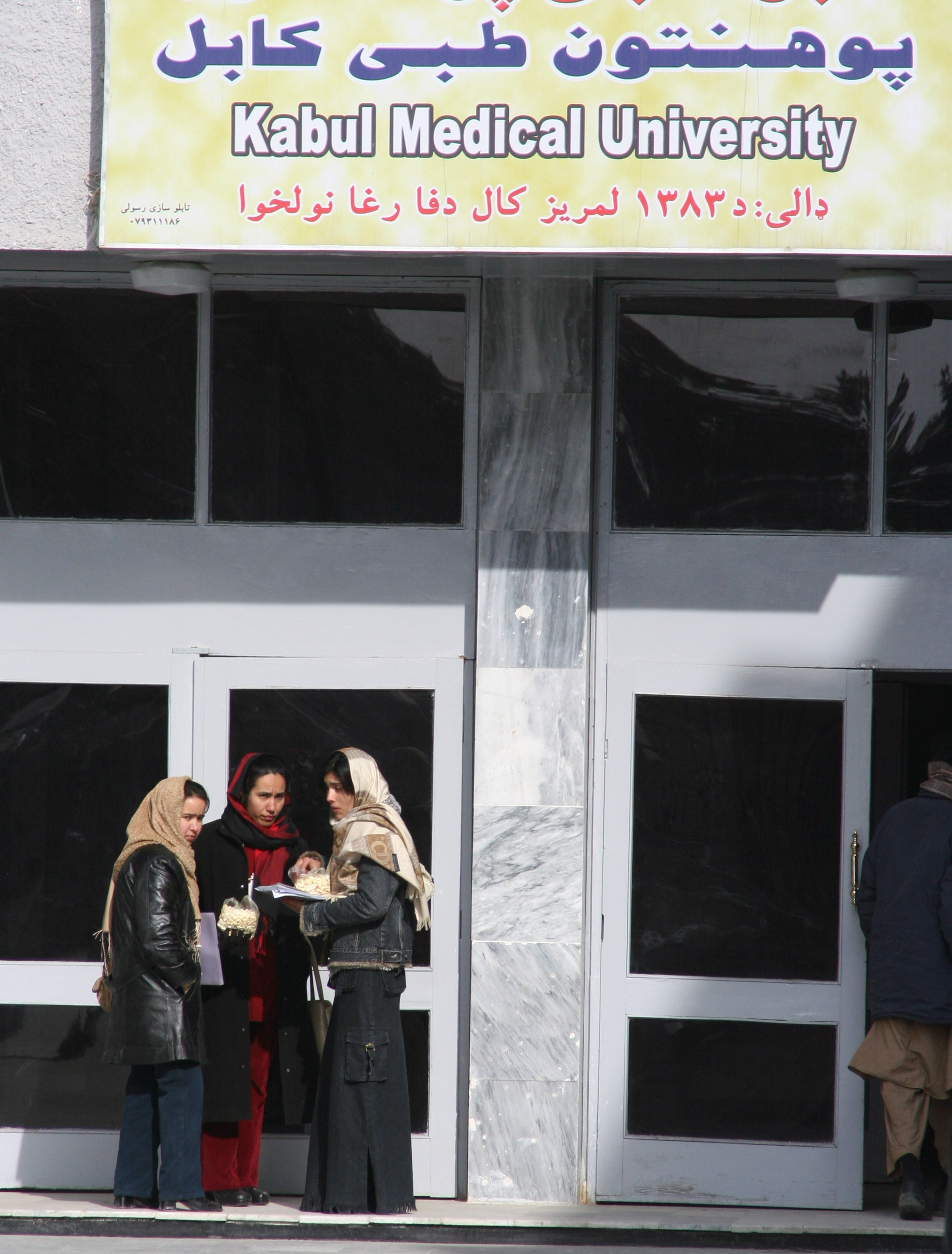 Female students of Afghanistan chat outside Kabul Medical University in 2006.